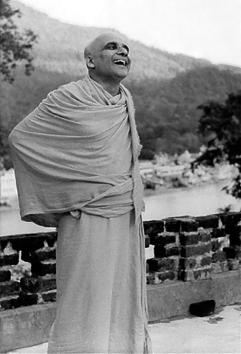 Swami Krishnananda, 50th birthday celebration, 1972.